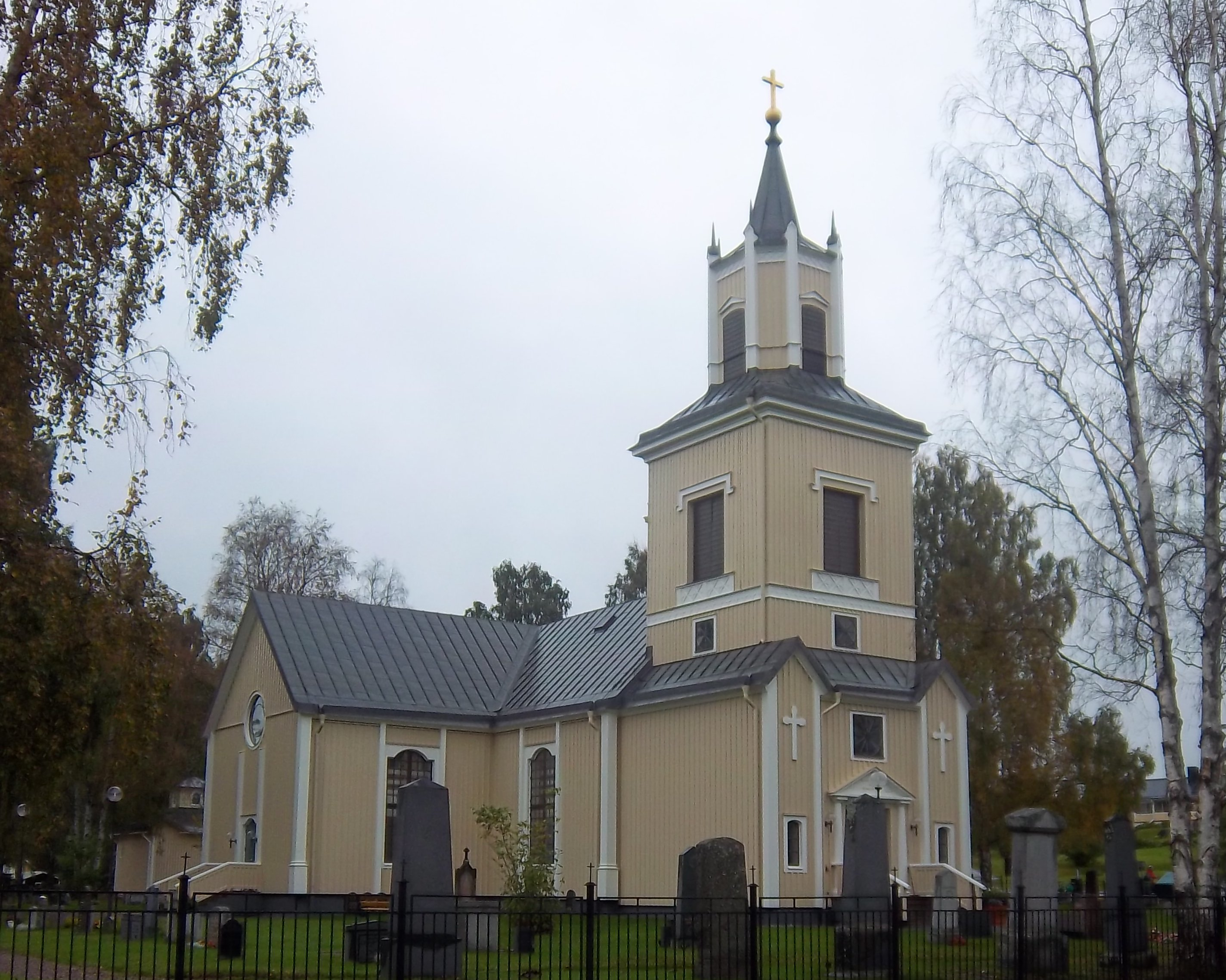 Älvsbyn church on a cloudy day in the fall, photographed between the church and the church village